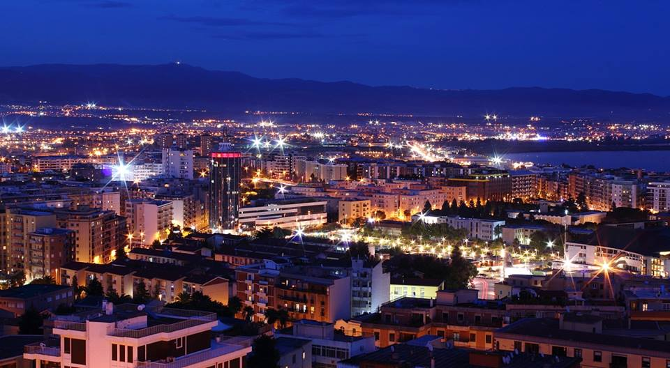 Cagliari on night